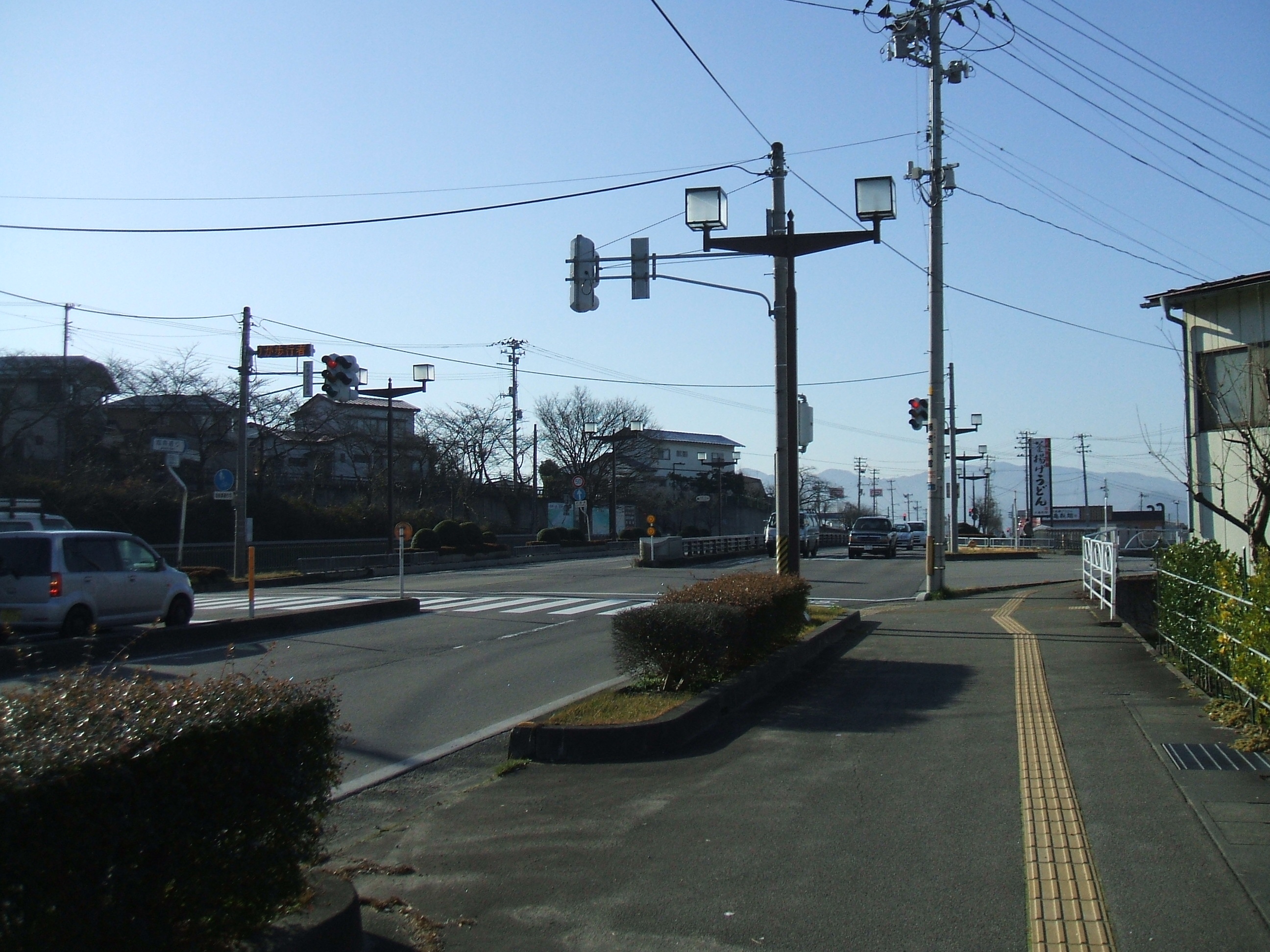 View of Odabashi-Dori street at Odabashi Intersection in Aizuwakamatsu City, Fukushima Prefecture, Japan